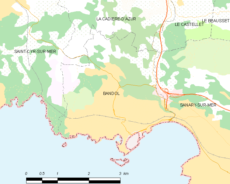 Map of French municipality Bandol